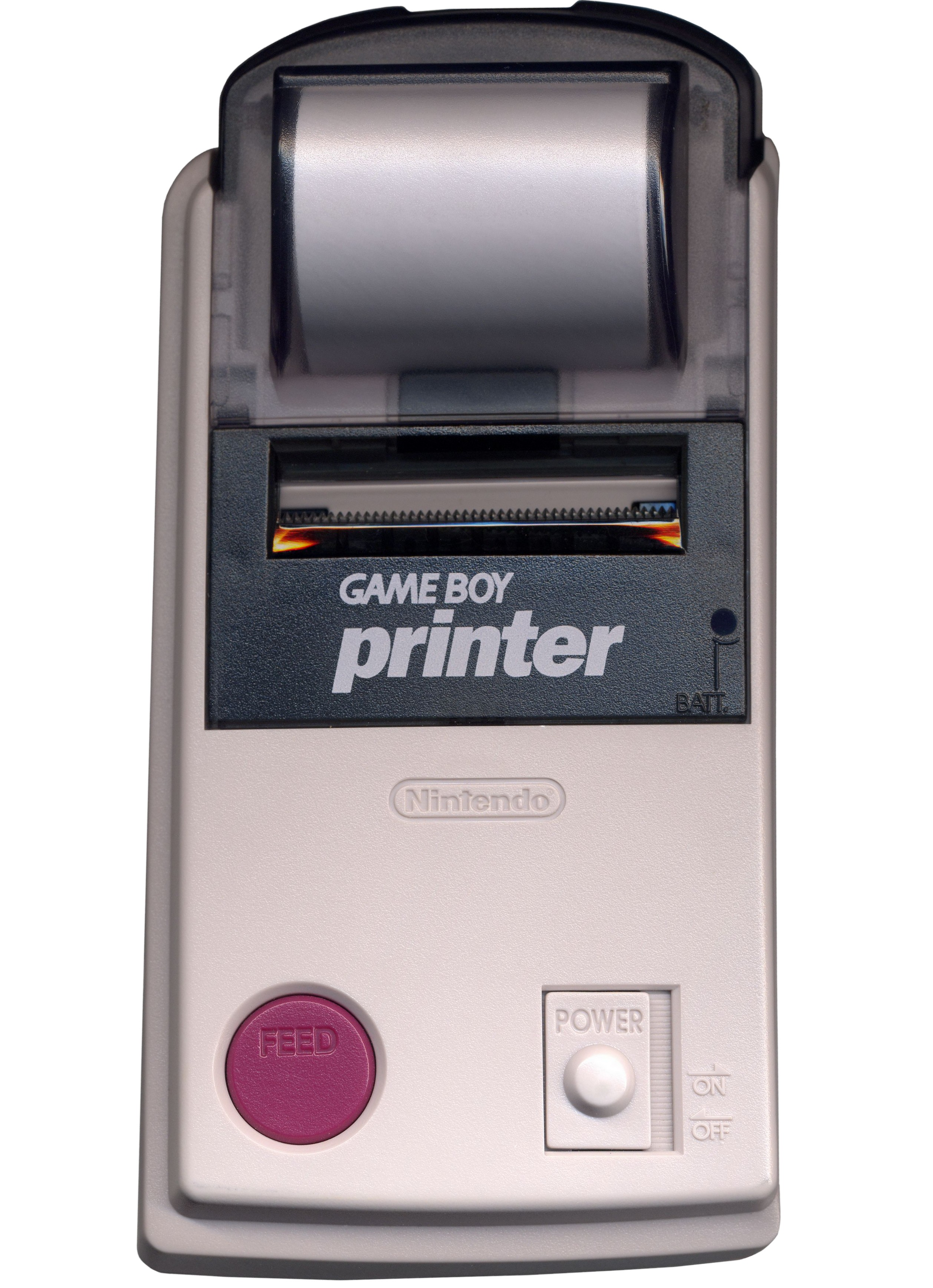 Scan of the Game Boy Printer peripheral.